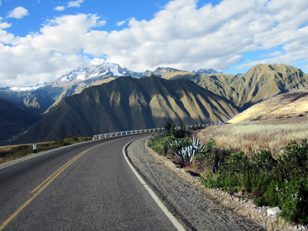 The road from Cuzco to the Sacred Valley of the Incas.